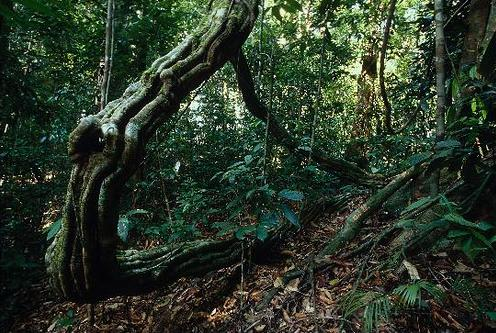 A view of the dense understorey of Lambir Hills National Park, Sarawak, Malaysia (Borneo) -- a mixed dipterocarp forest